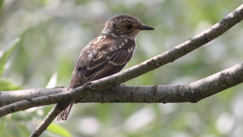 Spotted Flycatcher (Muscicapa striata), Rhein Delta, Hoechster Ried, Vorarlberg, Austria